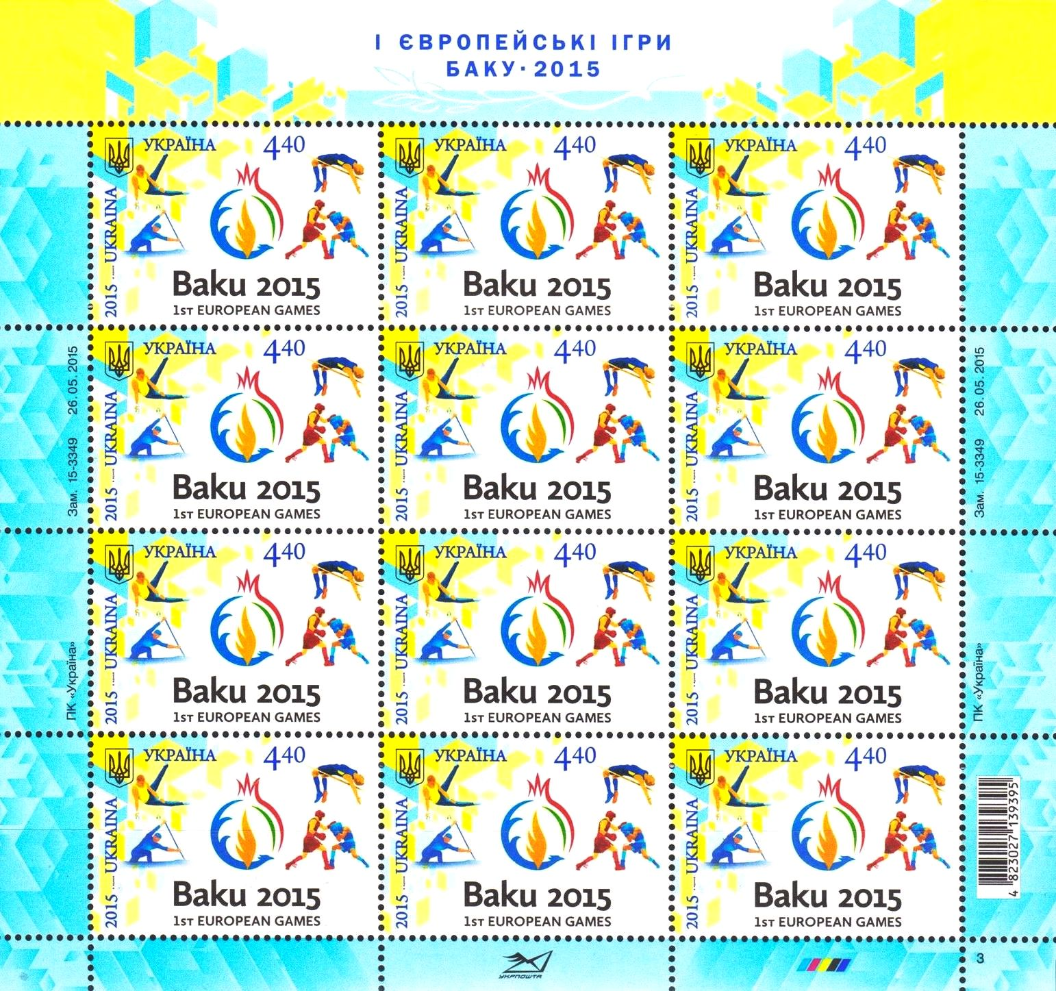 Stamps of Ukraine, 2015